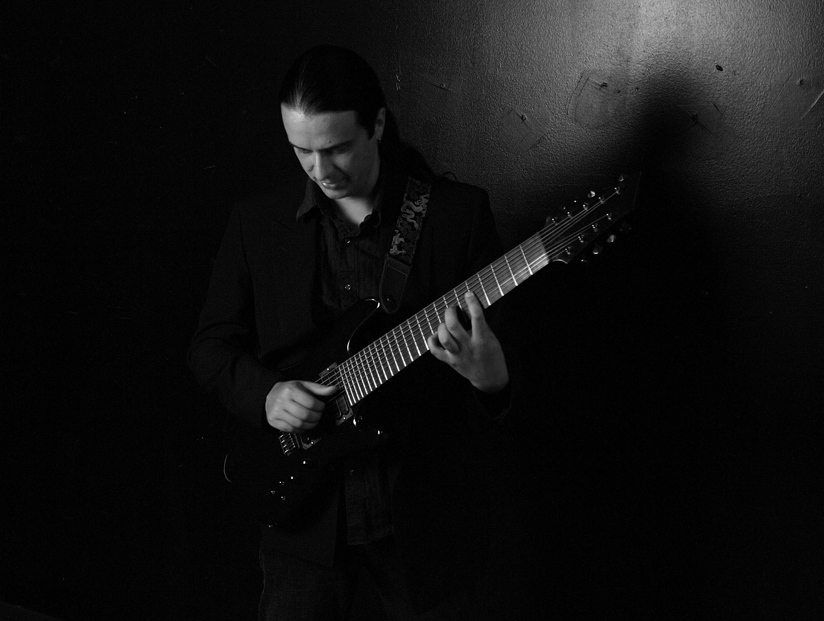 Nine string guitar tuned in major thirds.